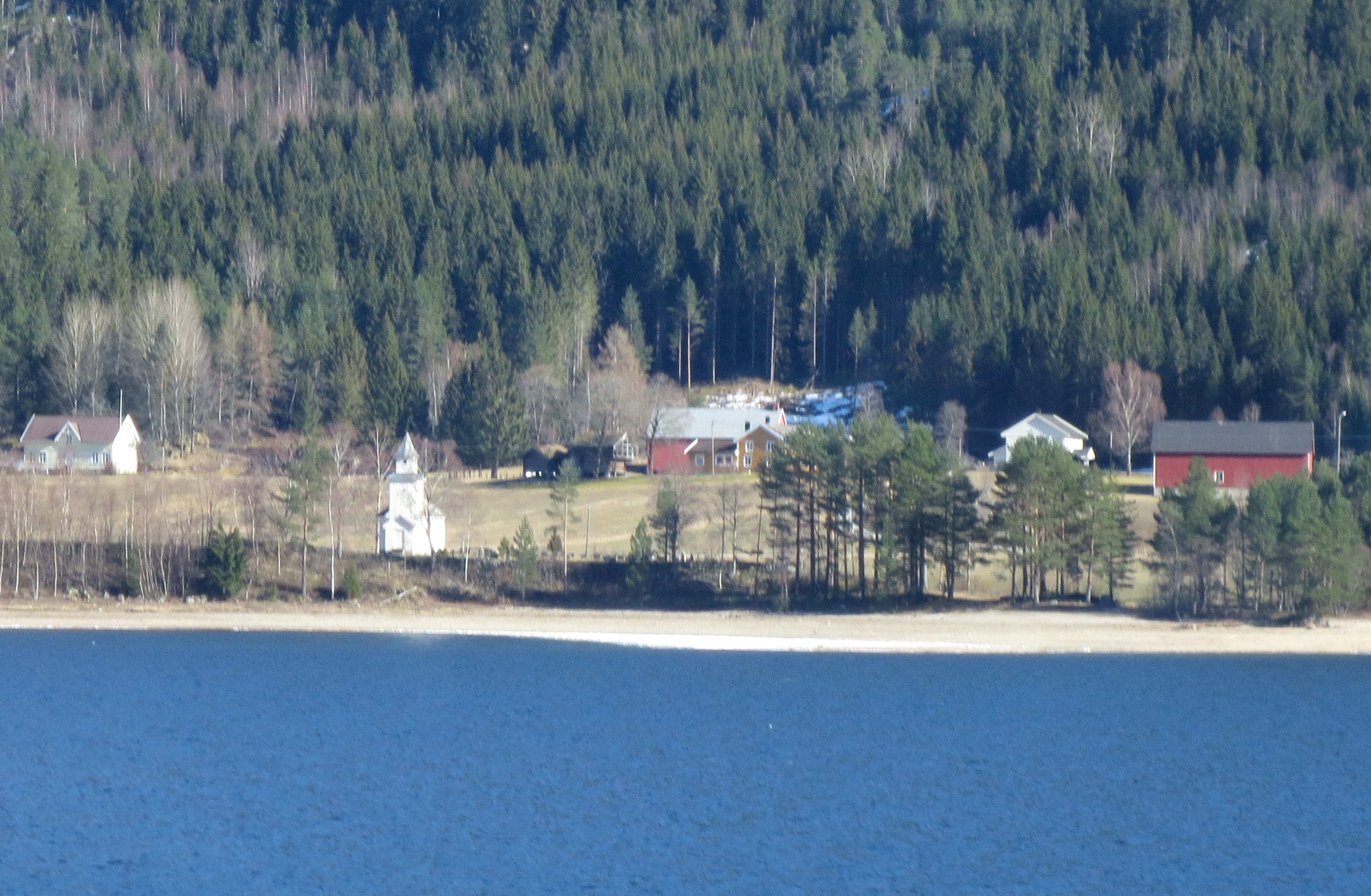 Image from the Sandnes.Haugå area, north of Ose township, Bygland municipality, Aust-Agder county, Norway